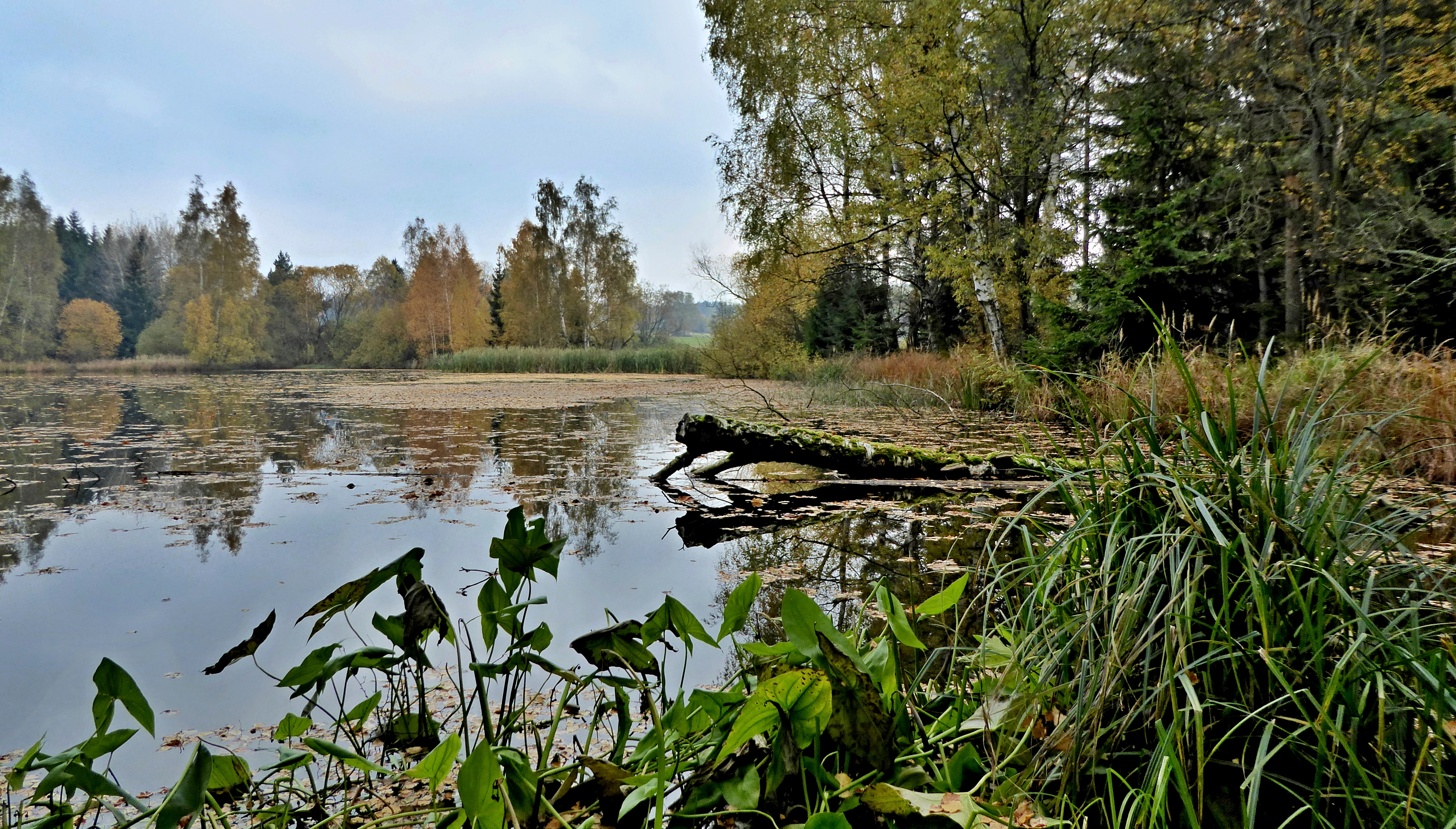 "Horní ratajský" pond is the geographical name of a pond with an area of 1.6714 ha in the landscape area of Iron Mountains on the cadastral territory of town Hlinsko in the Chrudim district belonging to the Pardubice Region in the Czech Republic. The pond is part of the pond system "Ratajské" ponds, also of natural monument of the same name and European-important locality. Autumn time means fallen leaves on the surface of the pond and drying out vegetation on the shore. Photo location: Czechia, Pardubice Region, town Hlinsko, "Horní ratajský" pond (60°).